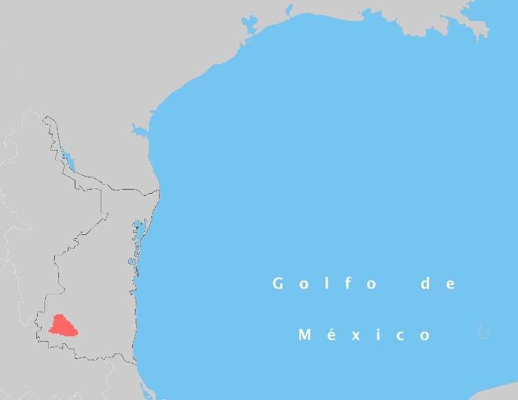 Approximate language area for naolan language